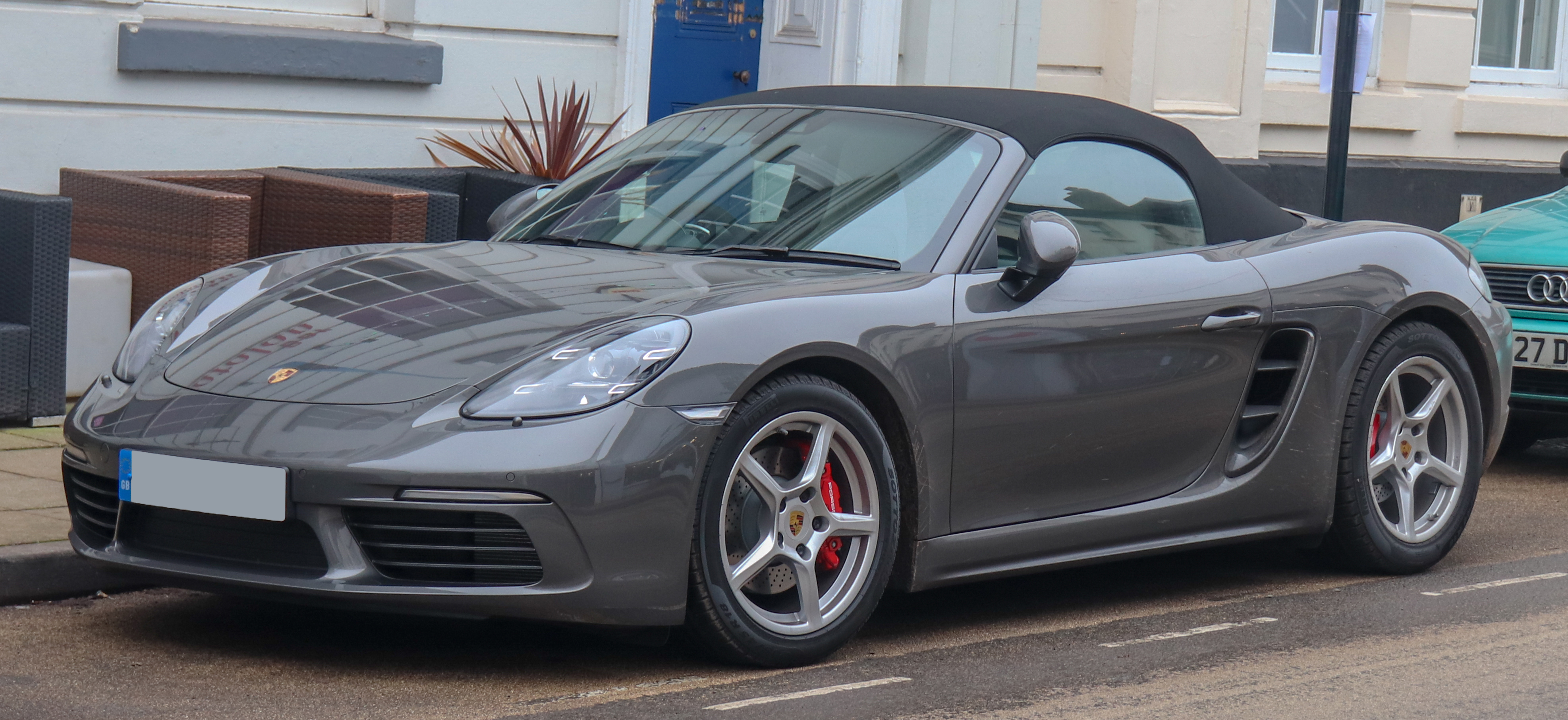 2018 Porsche 718 Boxster S S-A 2.5 Front Taken in Warwick